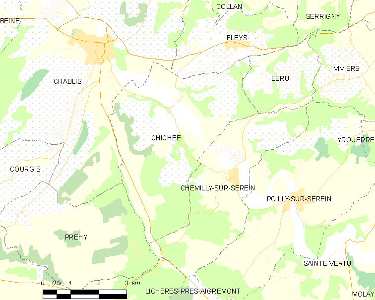 Map of French municipality Chichée